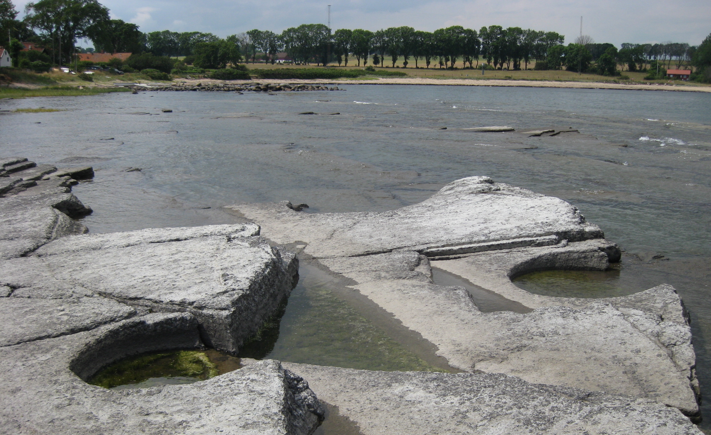 The limestone rocks off Gislövshammar were used as quarry for millstones.